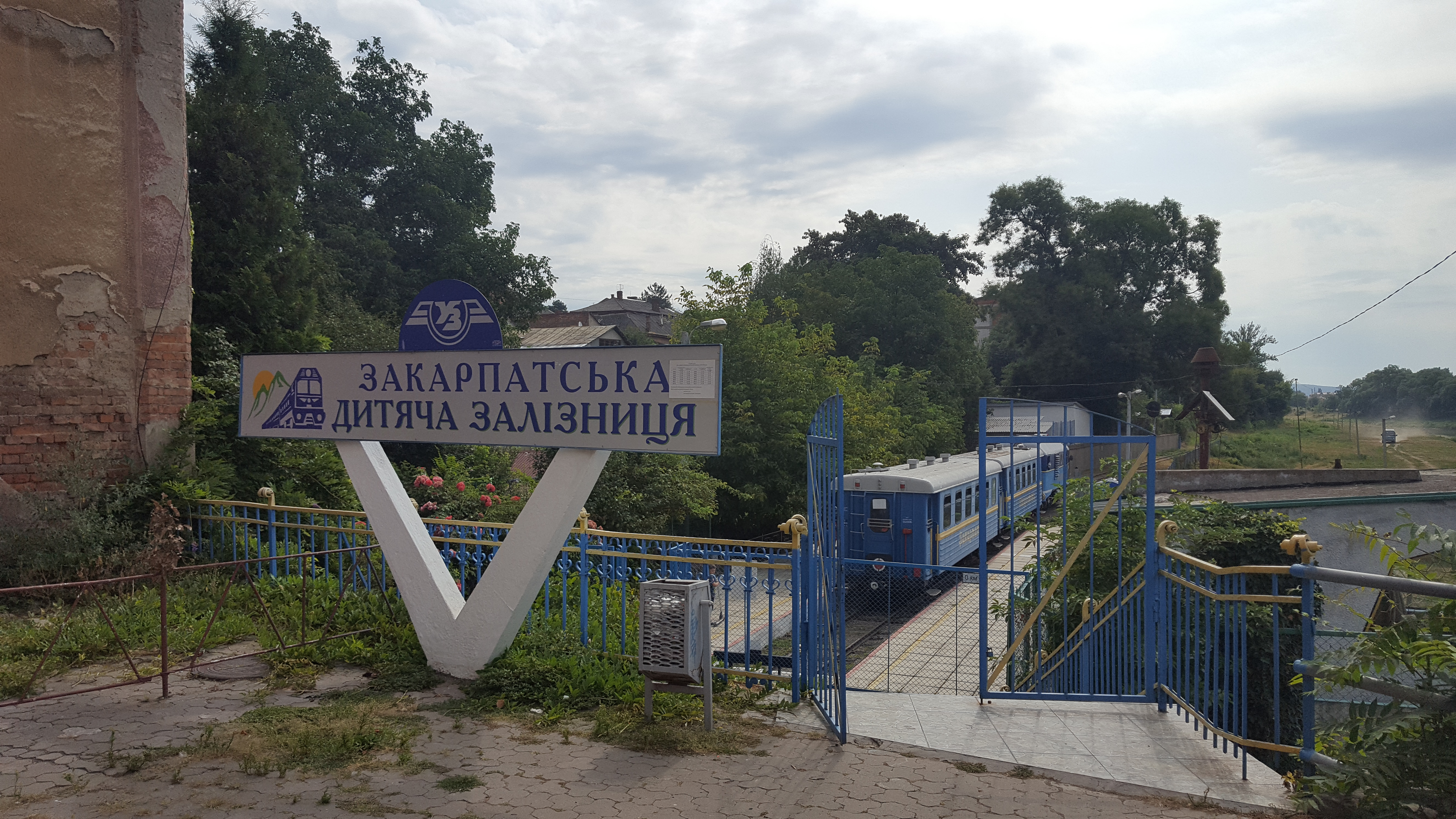 Entry to the platform of the central stop of Uzhhorod Children's Railway